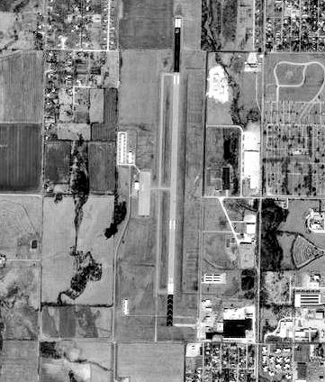 USGS orthophoto of Miami Municipal Airport, Oklaholma